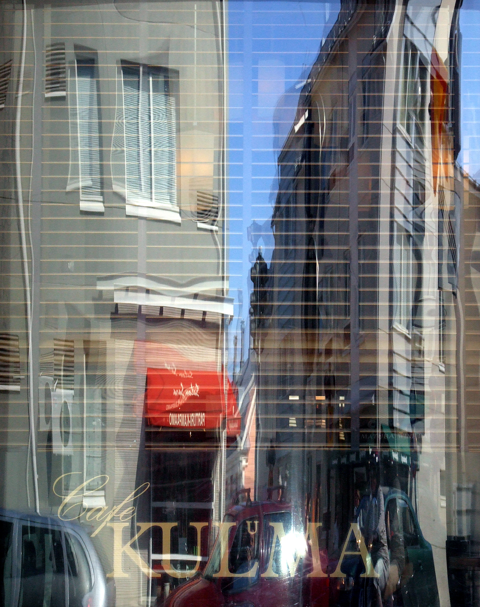 The drinkbar Café Kuluma in Oulu, Finland.